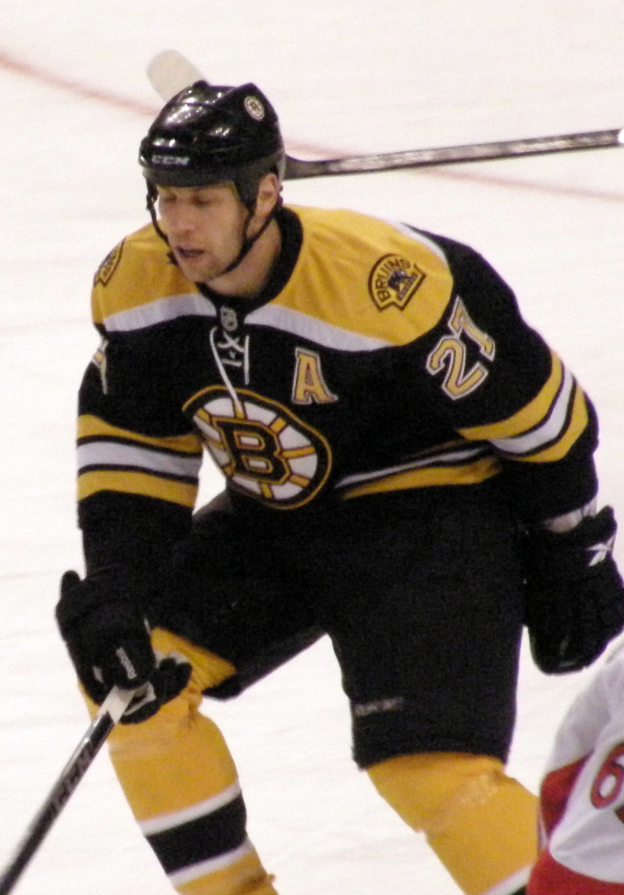 Steve Begin (C, BOS) -- I'm pretty sure that stick didn't *actually* hit him in the head.